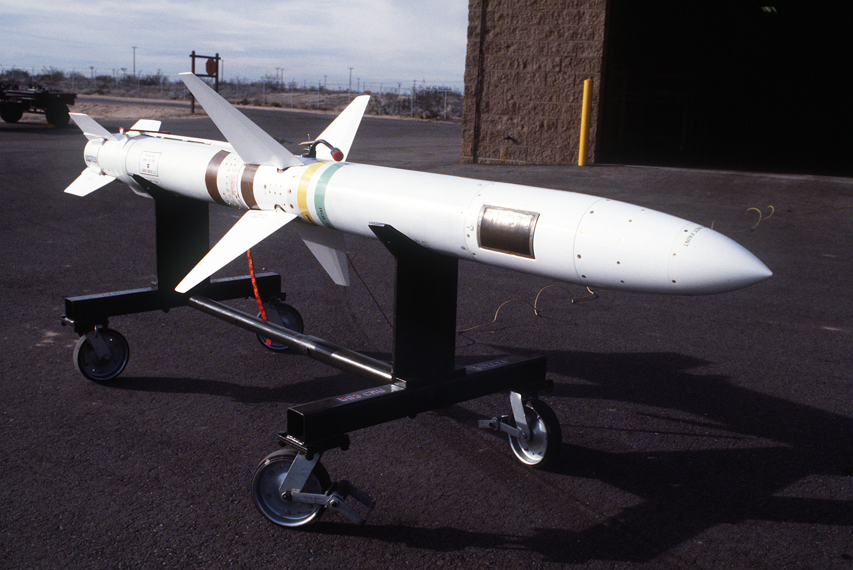 A view of an AGM-45 Shrike anti-radiation missile. Location: GEORGE AIR FORCE BASE, CALIFORNIA (CA) UNITED STATES OF AMERICA (USA)